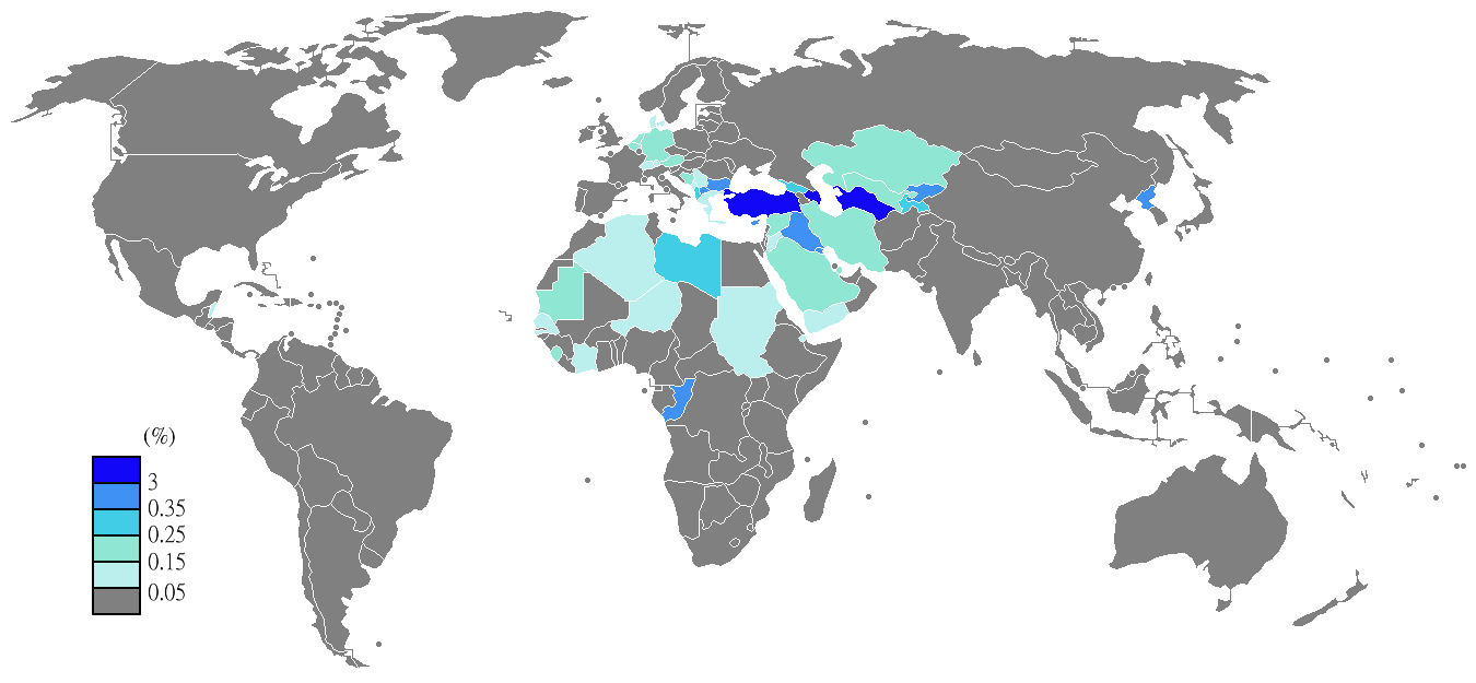 Turkish Wikipedia Page views ratio by country 2011